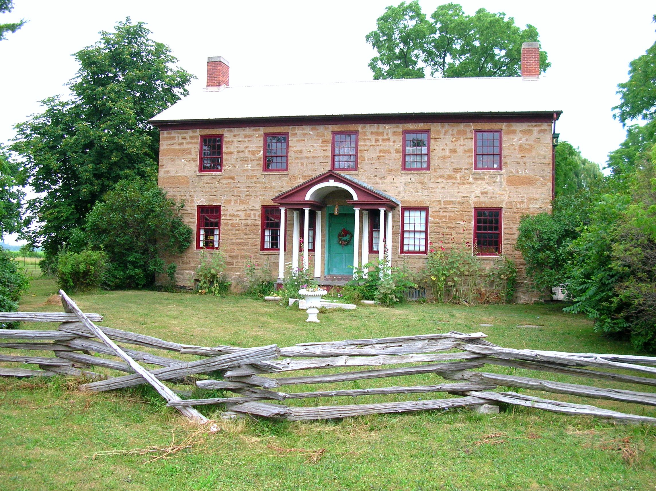 Brown-Jouppien House 1317 Pelham Road, Short Hills Provincial Park, St. Catharines, Ontario